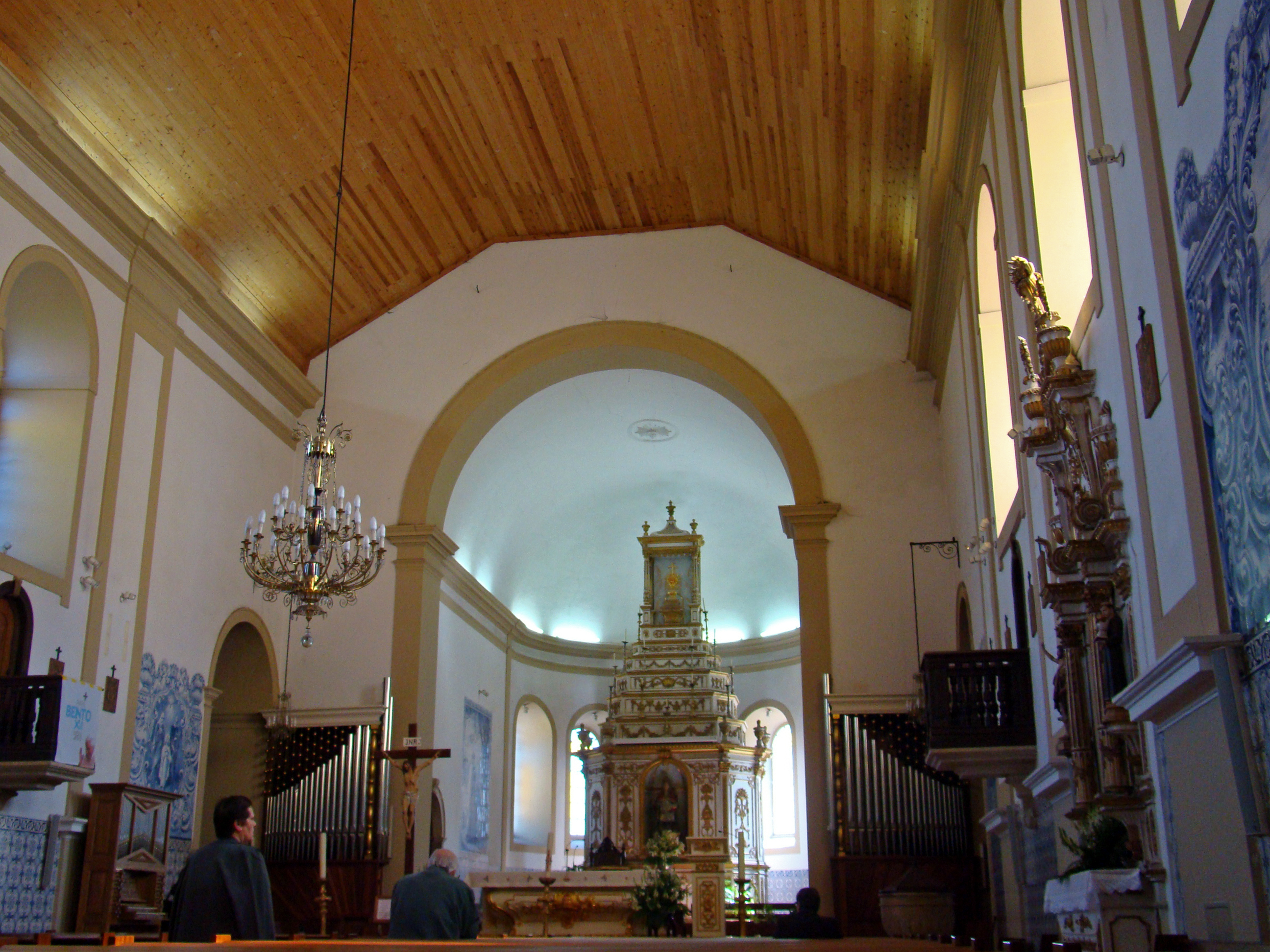 This file was uploaded for Wiki Loves Monuments in Portugal with the unique identifier 97009514.